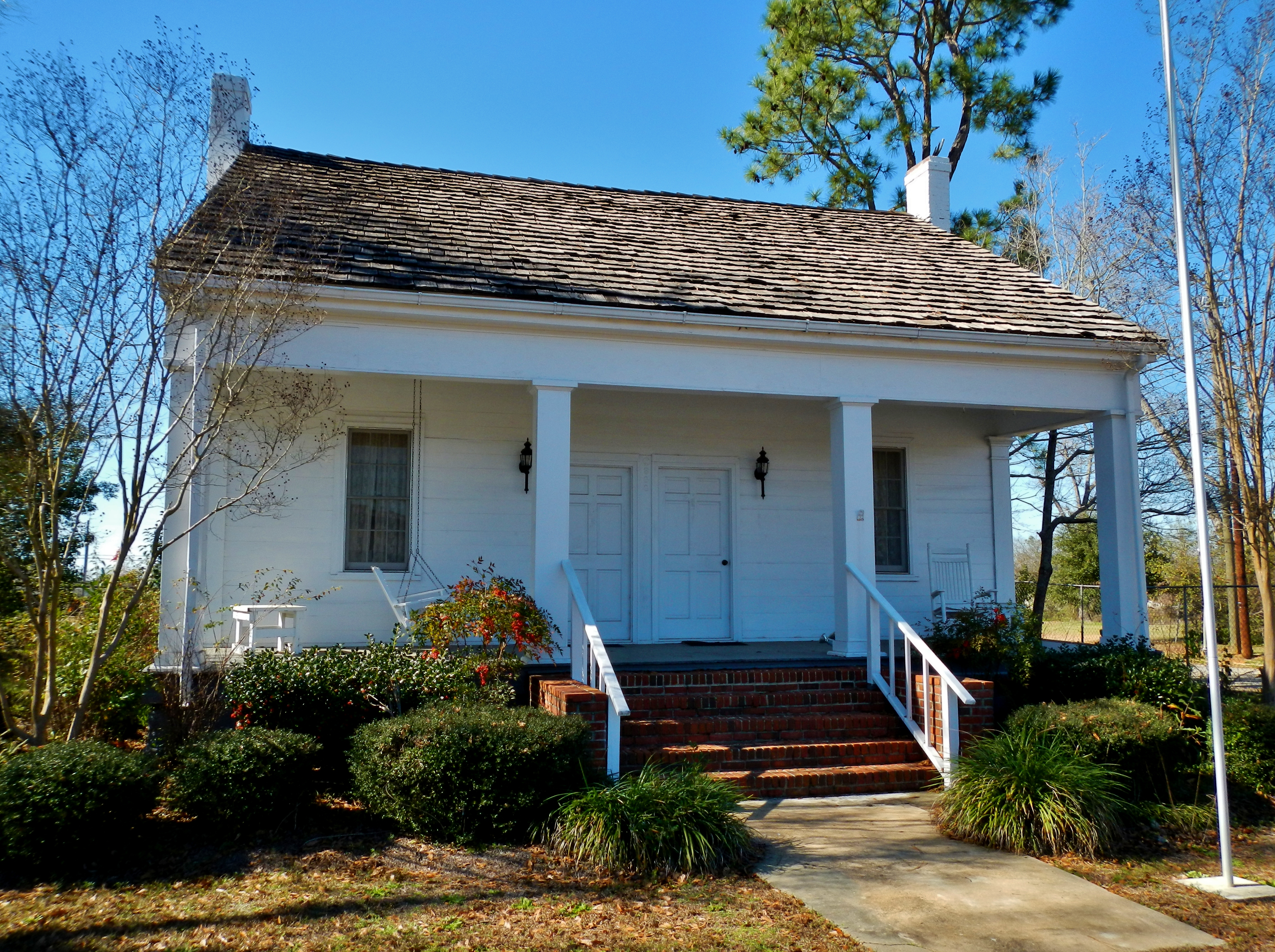 This is a photograph of the Bethune-Kennedy House in Abbeville, Alabama. This rare, dual front door, double pen Creole cottage was constructed circa 1840 on the military three-notch road, now Kirkland Street. It is the oldest remaining structure in Abbeville. Earliest known owner was Confederate Colonel William Calvin Bethune, M.D. Last owner-dweller was Mollie Kennedy. To avoid immediate demolition, it was purchased in 1976, placed on the National Register of Historic Places in 1978 and initially restored by the Henry County Historical Society. It is presently owned by the Abbeville Chamber of Commerce.